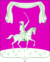 Coat of arms of Kalnibolotskaya, Novopokrovskaya Raion, Krasnodar Krai, Russia.